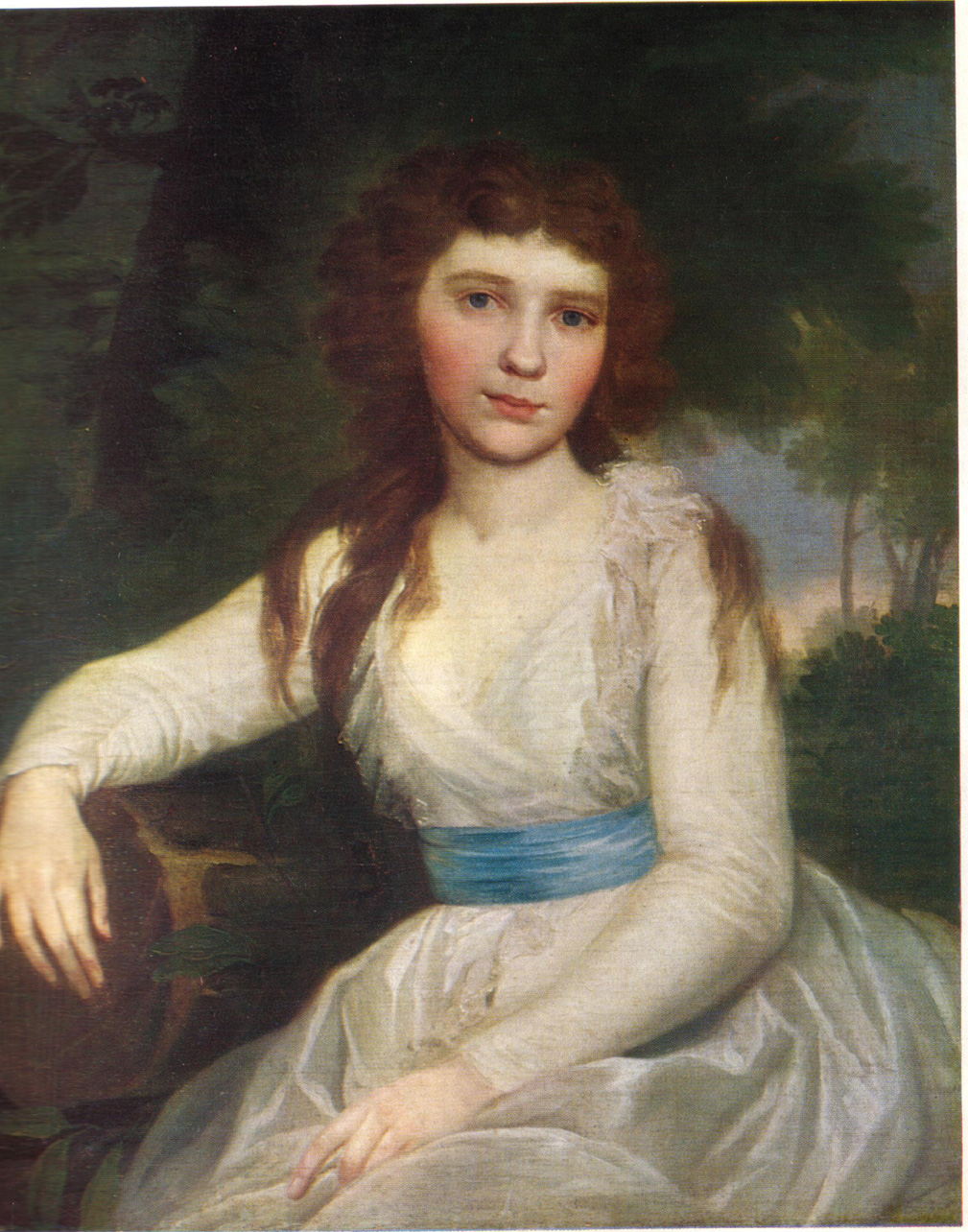 Portrait of E. A. Volkonskaya by Vladimir Borovikovsky.